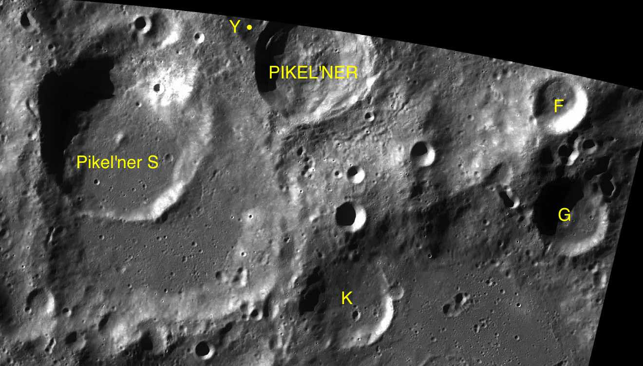 Part of the chart LAC-130 used for the presentation